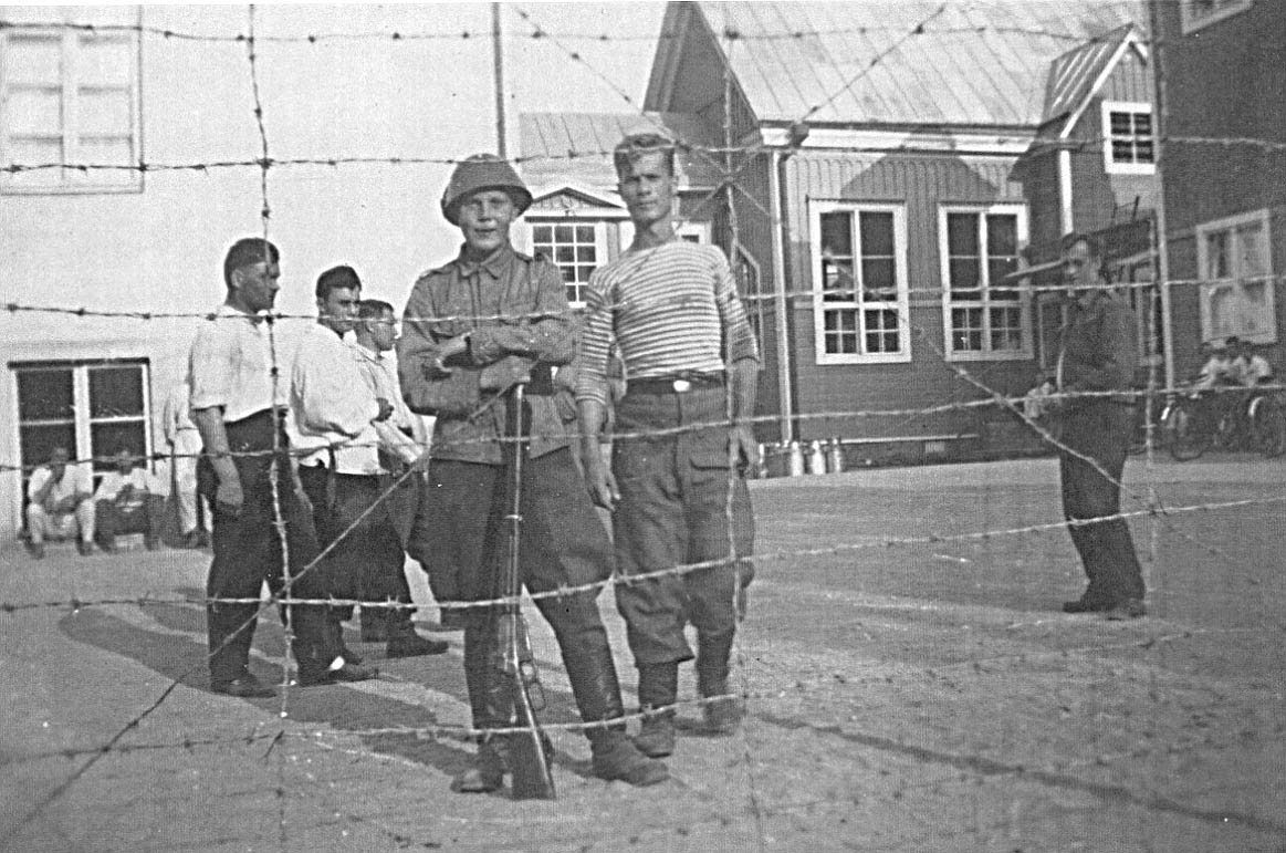 Soviet POWs in Kokkola, Finland.